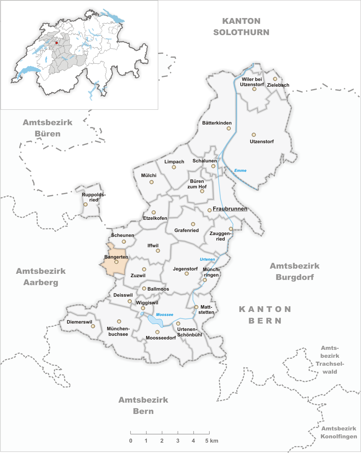 Municipality Bangerten